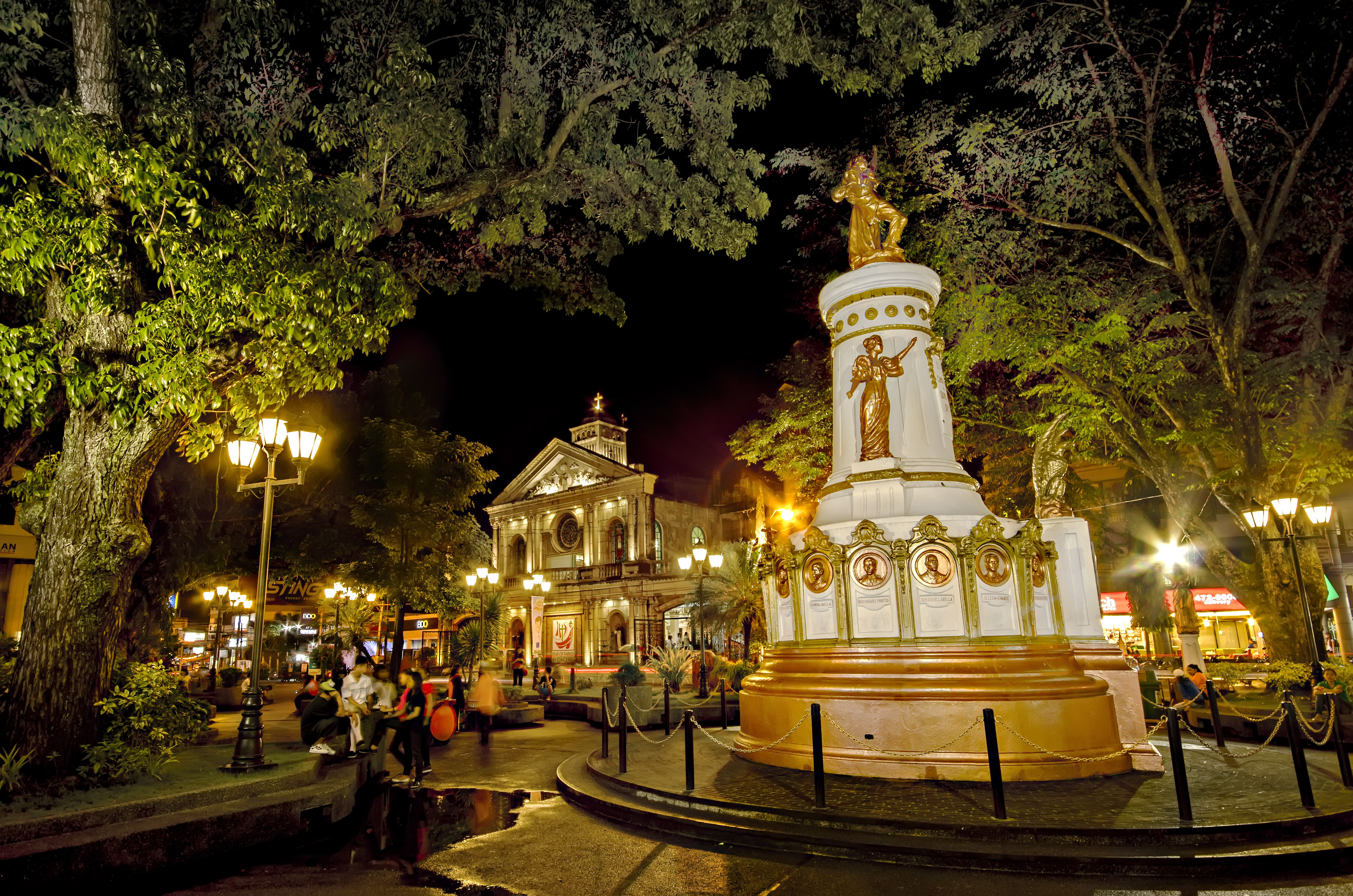 San Francisco Church of Naga, Camarines Sur, Philippines.